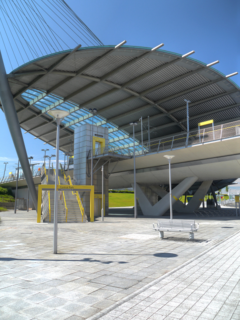 Central Park Metrolink station is a tram stop featuring a striking curved copper and glass canopy suspended by a cable-tensioned steel structure. The station serves The Central Park Urban Regeneration Area in north-east Manchester. It forms part of The Gateway, a £36.5 million transport interchange which will include local bus services as well as the Metrolink tram stop.